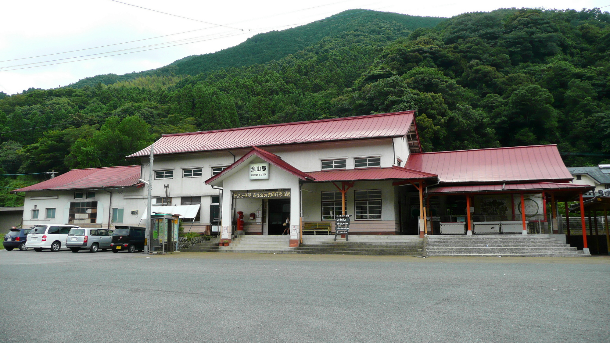 Hikosan Station, Hita-Hikosan Line